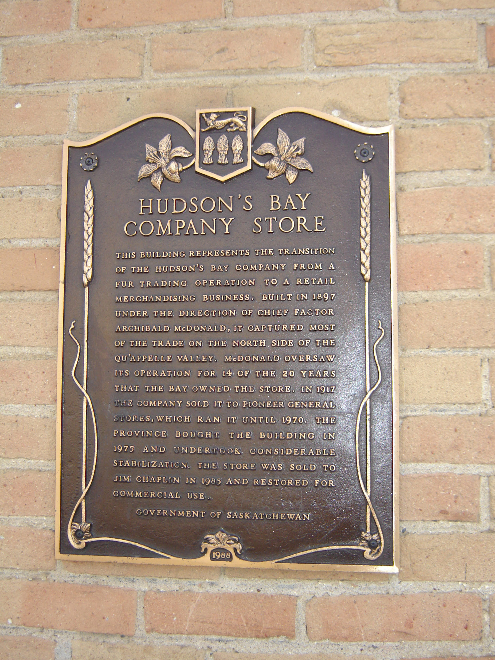 1897 Hudson Bay Company Store in Fort Qu'Appelle Saskatchewan